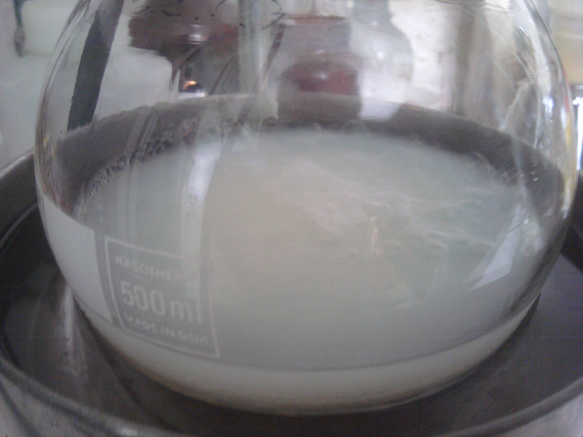 Finkelstein Reaction in Flask